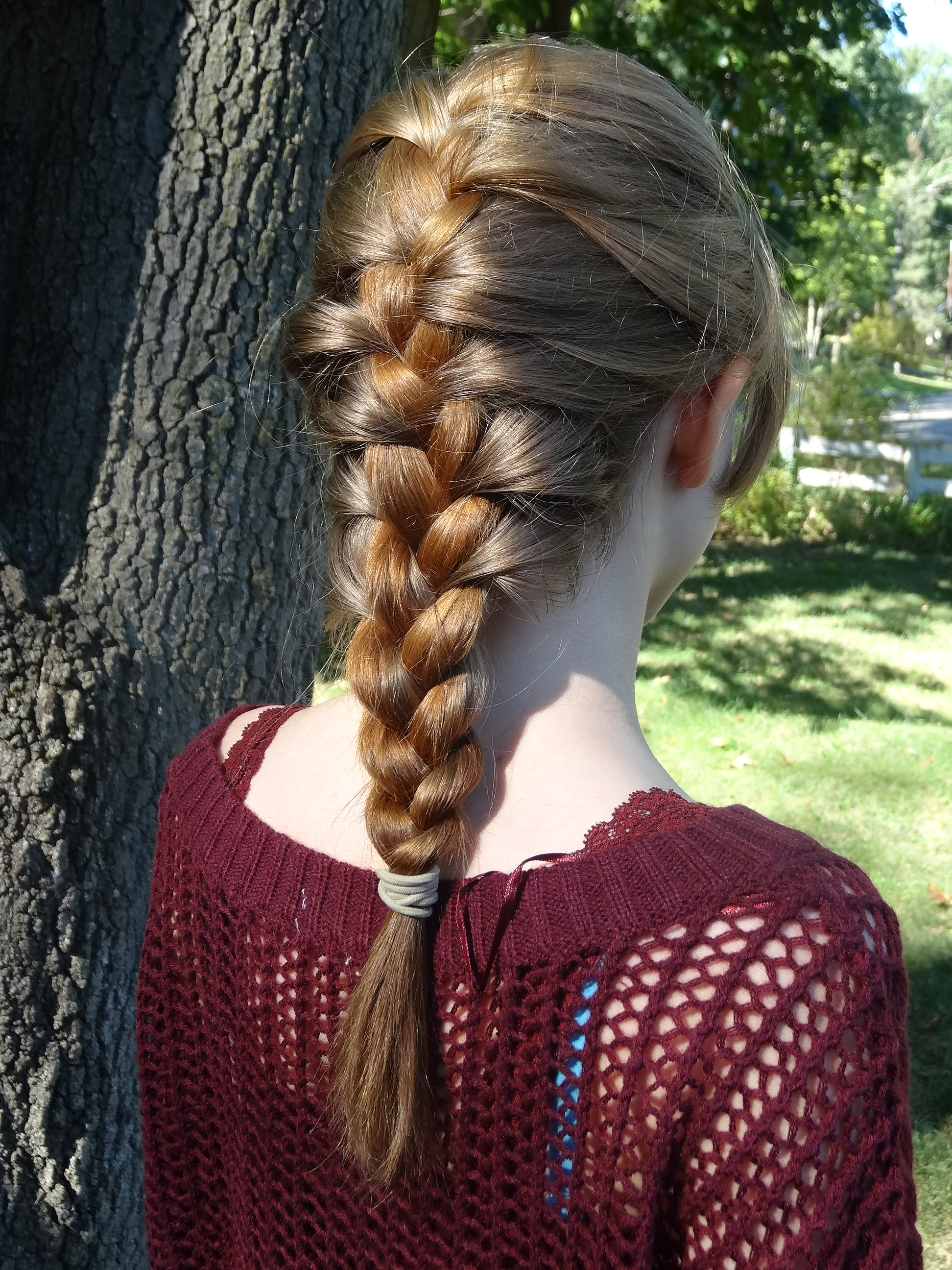 Classic french braid